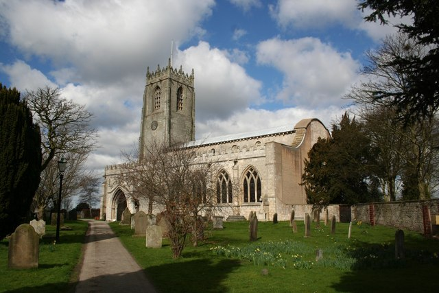 St.Mary & St.Martin's Priory church